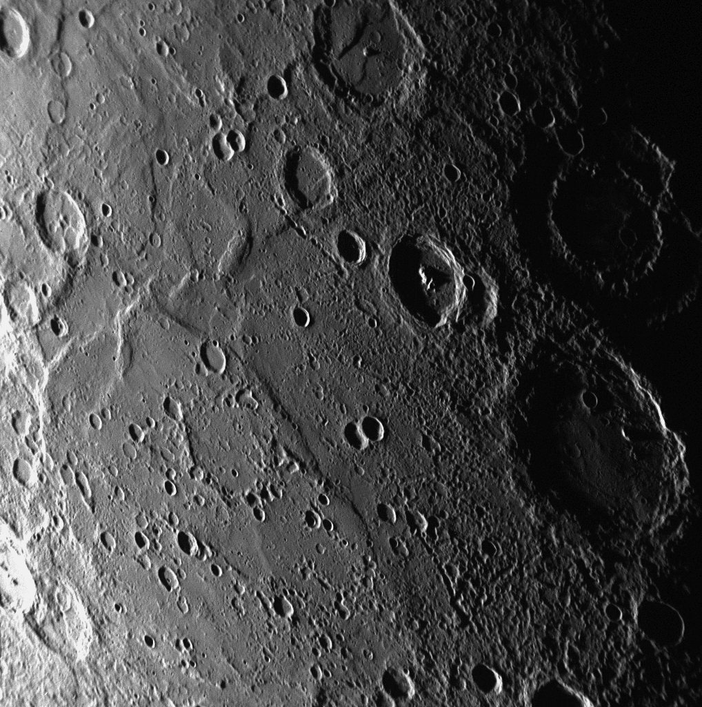 As MESSENGER sped by Mercury on January 14, 2008, the Narrow Angle Camera (NAC) of the Mercury Dual Imaging System (MDIS) captured this image before its closest approach with the planet. The scene is near Mercury's terminator (the line between the sunlit day side and dark night side of the planet), where shadows are long and height differences accentuated, revealing rising crater walls that tower over the floors below. The large crater situated on the right side in the bottom half of the image is Sullivan crater, a structure about 135 kilometers (84 miles) in diameter also seen during the Mariner 10 mission. An influential American architect, Louis Sullivan and his work are often associated with the rise of modern skyscrapers, and this crater named in his honor finds a fitting home in Mercury's ancient geological architecture.